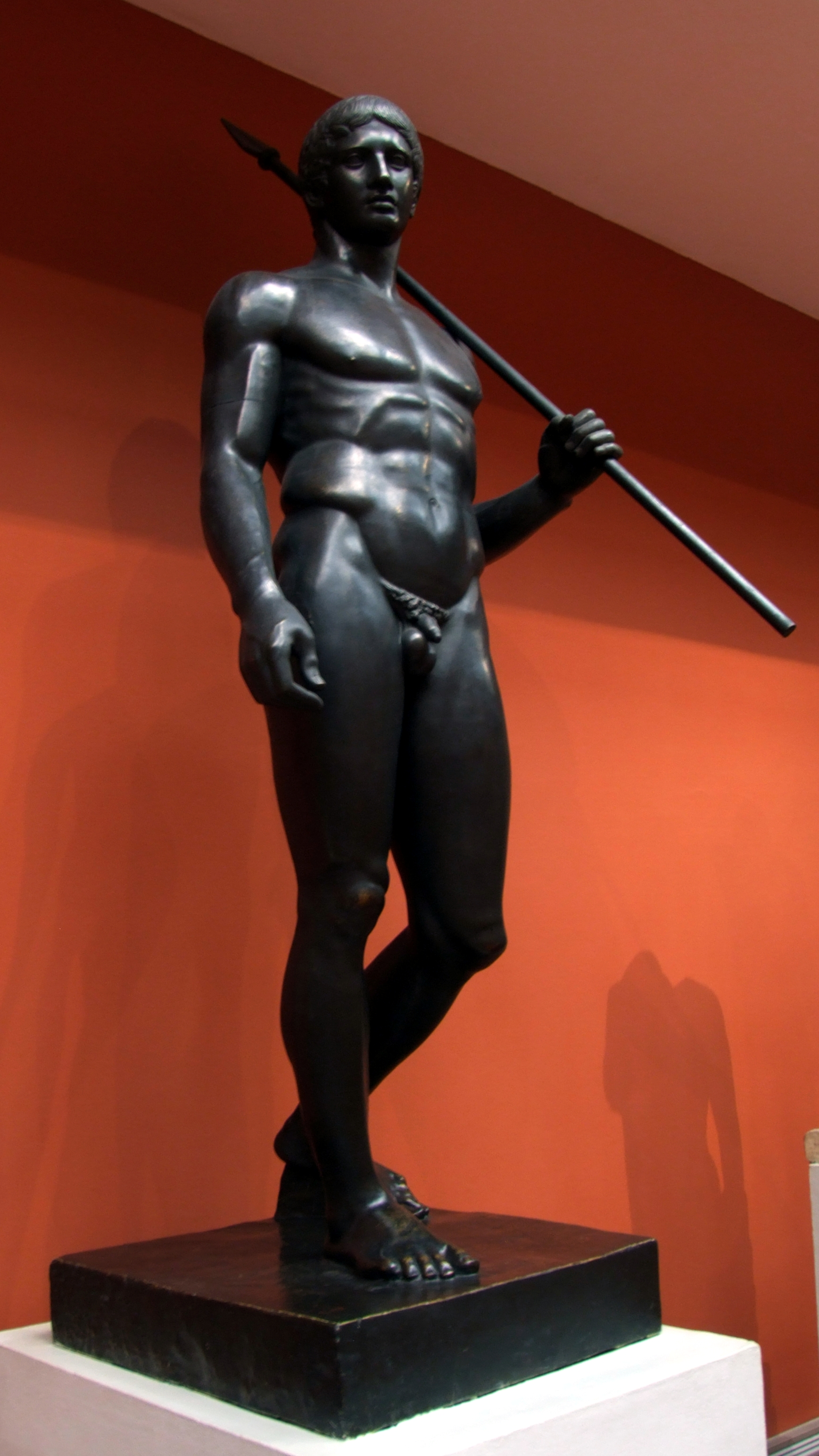 Polykleitos, The Doryphoros. Cast in Pushkin Museum, Moscow. The original in marble was found in the Palestra Sannitica in Pompeii, and is now in the Museo Archeologico in Naples.